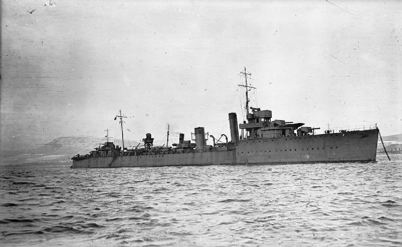 British destroyer HMS Warwick at anchor.